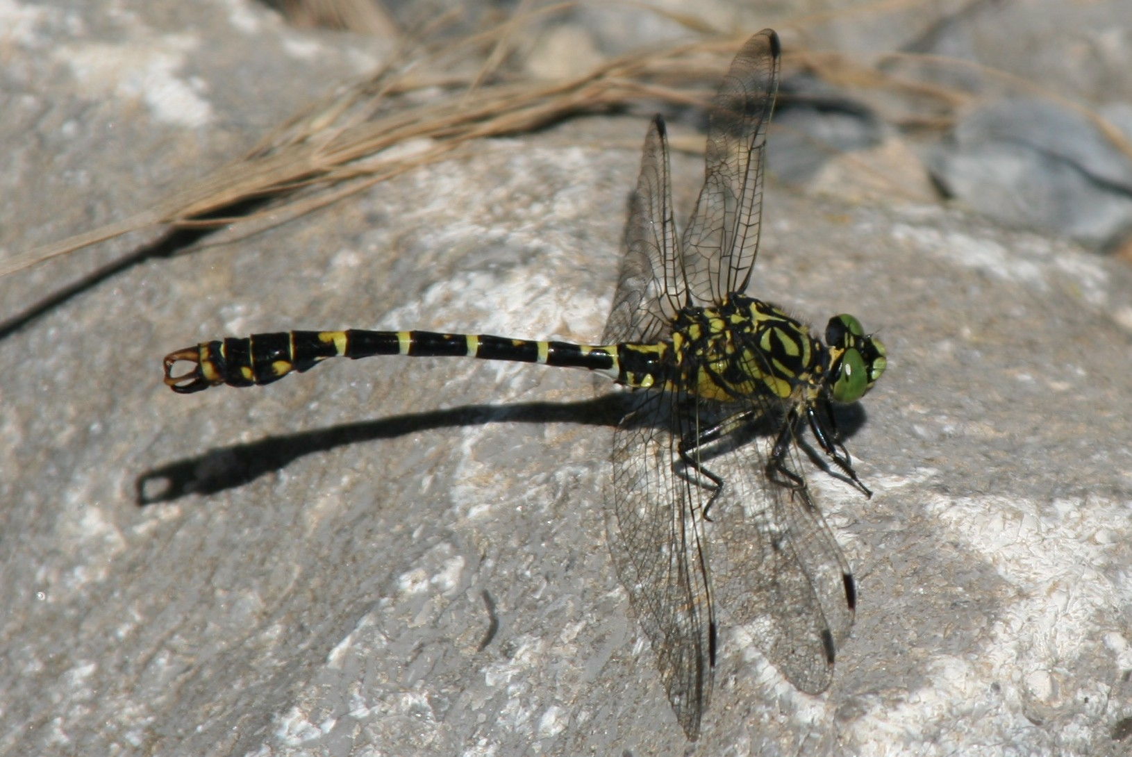 A male Green-eyed Hook-tailed Dragonfly (Onychogomphus forcipatus) found in Dörzbach-Hohebach